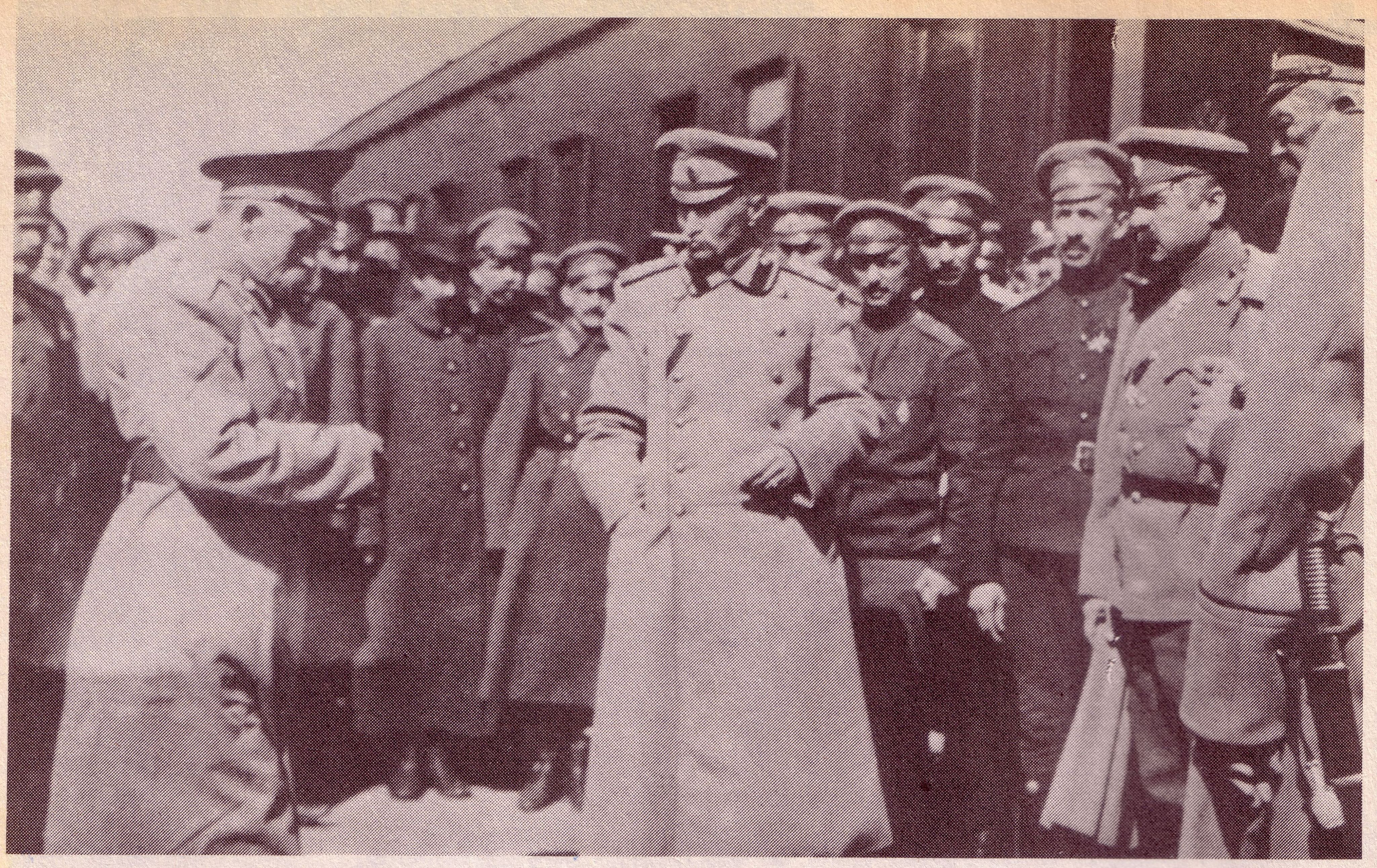 Brusilov Aleksei A (1853-1926)